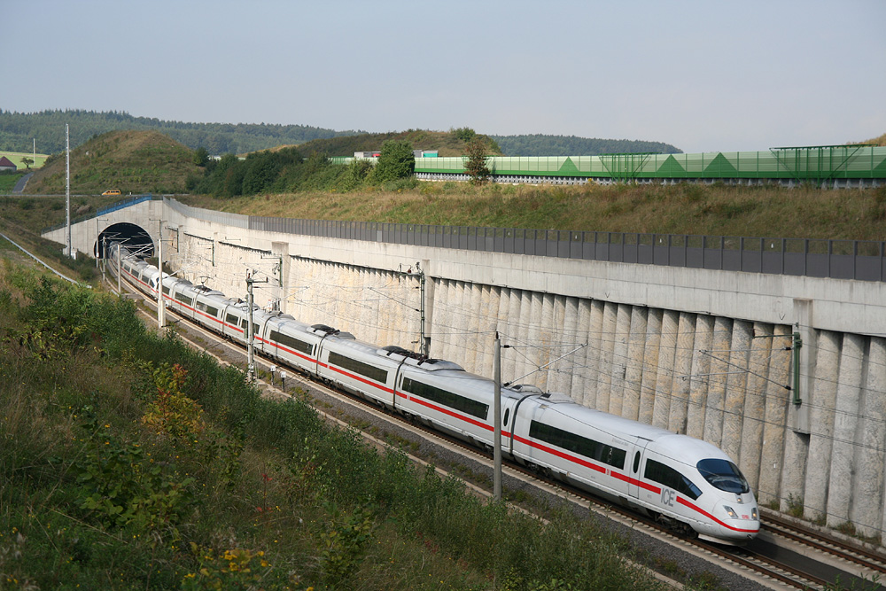 An ICE 3M train near Montabaur, on the Cologne-Frankfurt high-speed railway line. The depicted train is the international (multi-system) version of the latest generation of ICE trains. Two train sections are joined (coupled) and make up one actual vehicle.